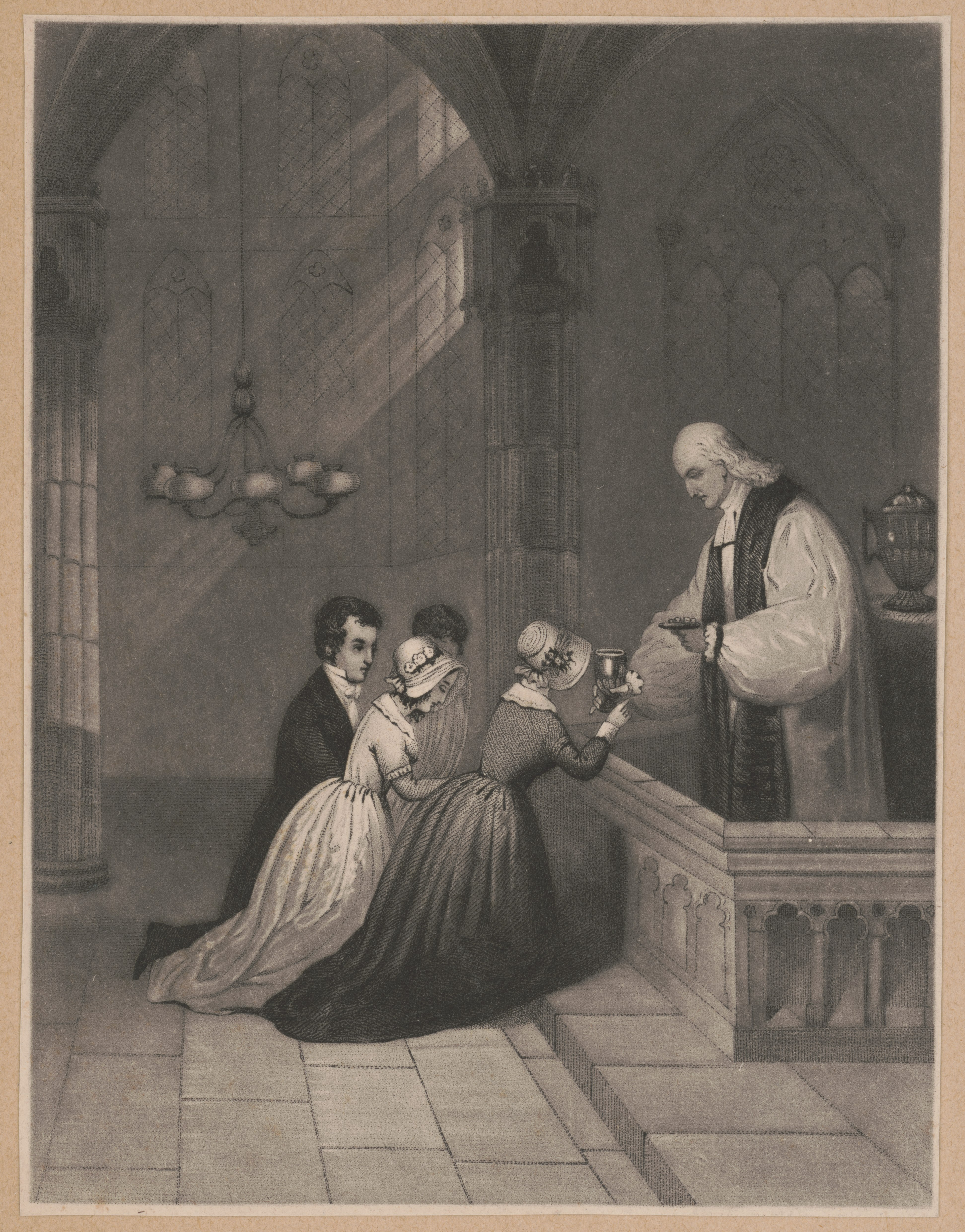 Title: Bishop White administering the sacrament Abstract/medium: 1 print : engraving ; sheet 15.3 x 11.8 cm, on mount 23.5 x 15.5 cm.